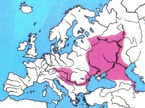 Range of Abramis sapa